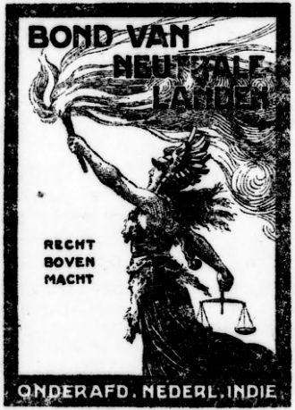 Image depicting Liberty, used by the Subsection Netherlands East Indies of the League of Neutral Nations, an non-governmental organisation of citizens in neutral countries, opposed to the Central Powers. The texts on the image are in Dutch and read: League of Neutral Nations (top); Justice over Power (left); Subsection Netherlands East Indies (bottom, abbr.)